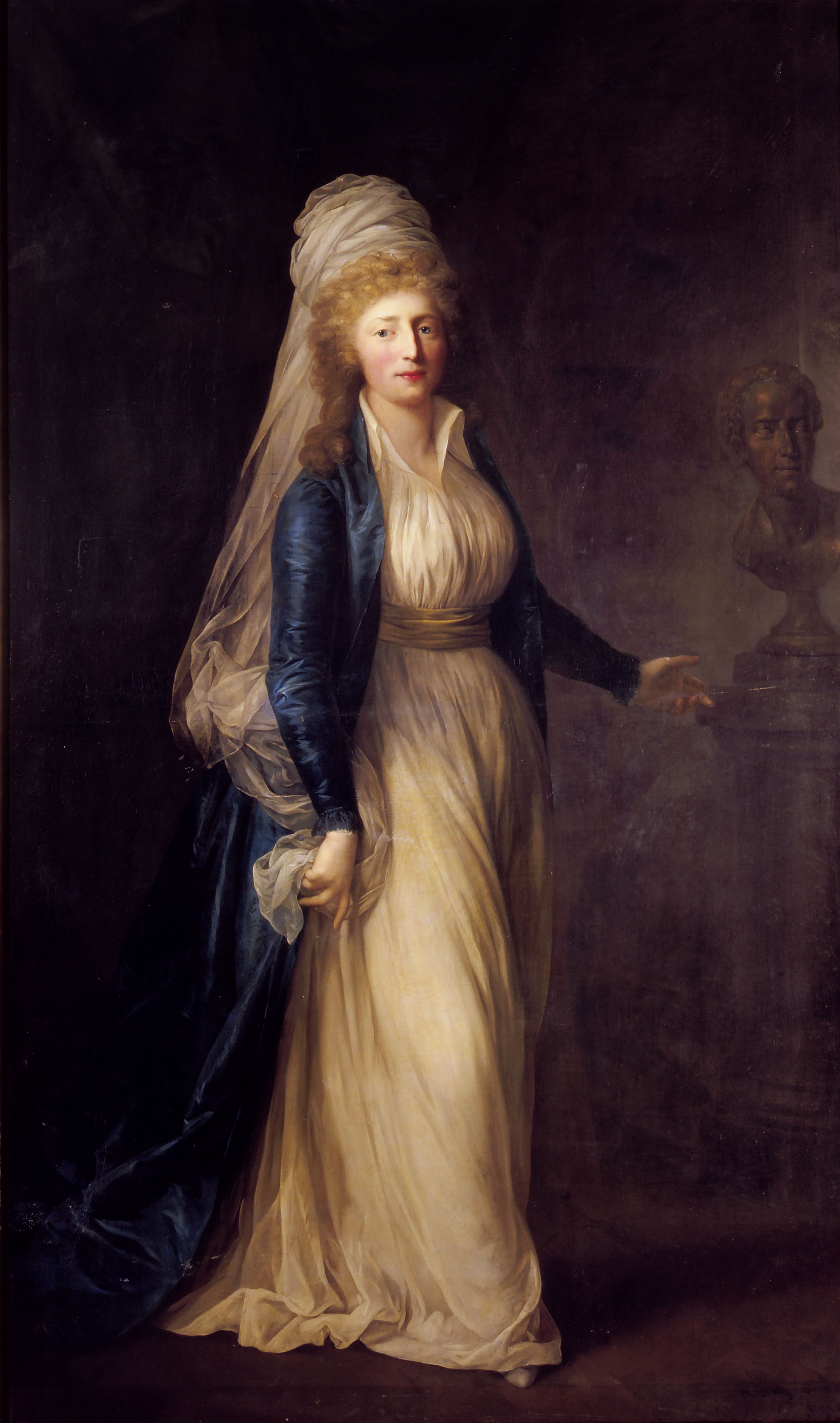 Portrait of Princess Louise Auguste of Denmark (1771-1843)